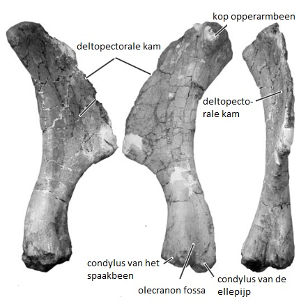 Olorotitan arharensis Godefroit, Bolotsky & Alifanov, 2003 (holotype AEHM 2-845). Left humerus in cranial (left), caudal (middle) and lateral views. Upper Cretaceous of Kundur, Russia